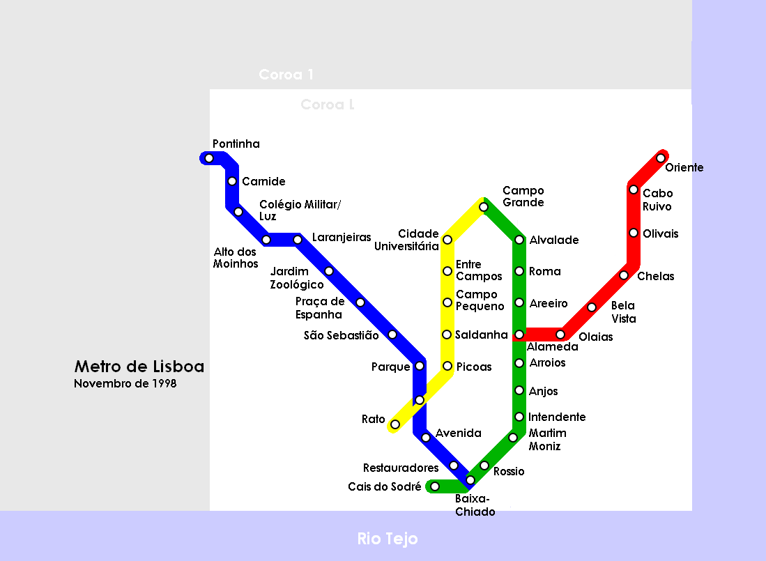 Map of Lisbon Metro in November 1998